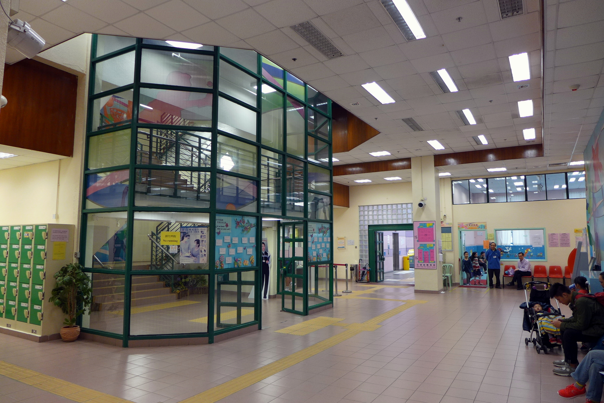 Shek Tong Tsui Municipal Building interior Sport Centre lobby